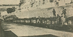 Coal train at Alcantara Terra Railway Station, in the city of Lisbon, in Portugal. This image was published on the Ilustração Portuguesa magazine No. 760, of the 13th September 1920, and scanned by the Hemeroteca Municipal de Lisboa.